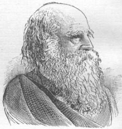 American poet William Cullen Bryant in profile, presumably from a carte de visite.